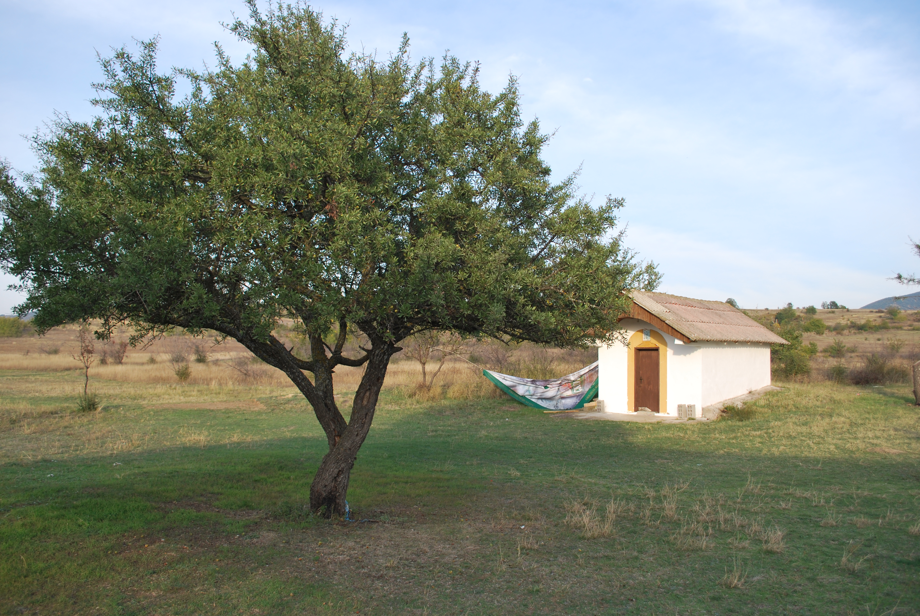 St. Petka Church in Vince, Macedonia This image is uploaded as part of the picture contest Wiki Loves Cultural Heritage in Macedonia 2013. English | македонски | +/−